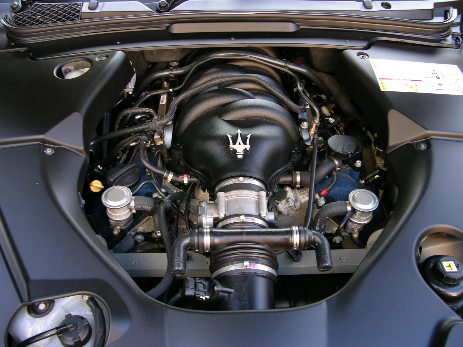 The F136 UD engine in a 2007 Maserati Gran Turismo